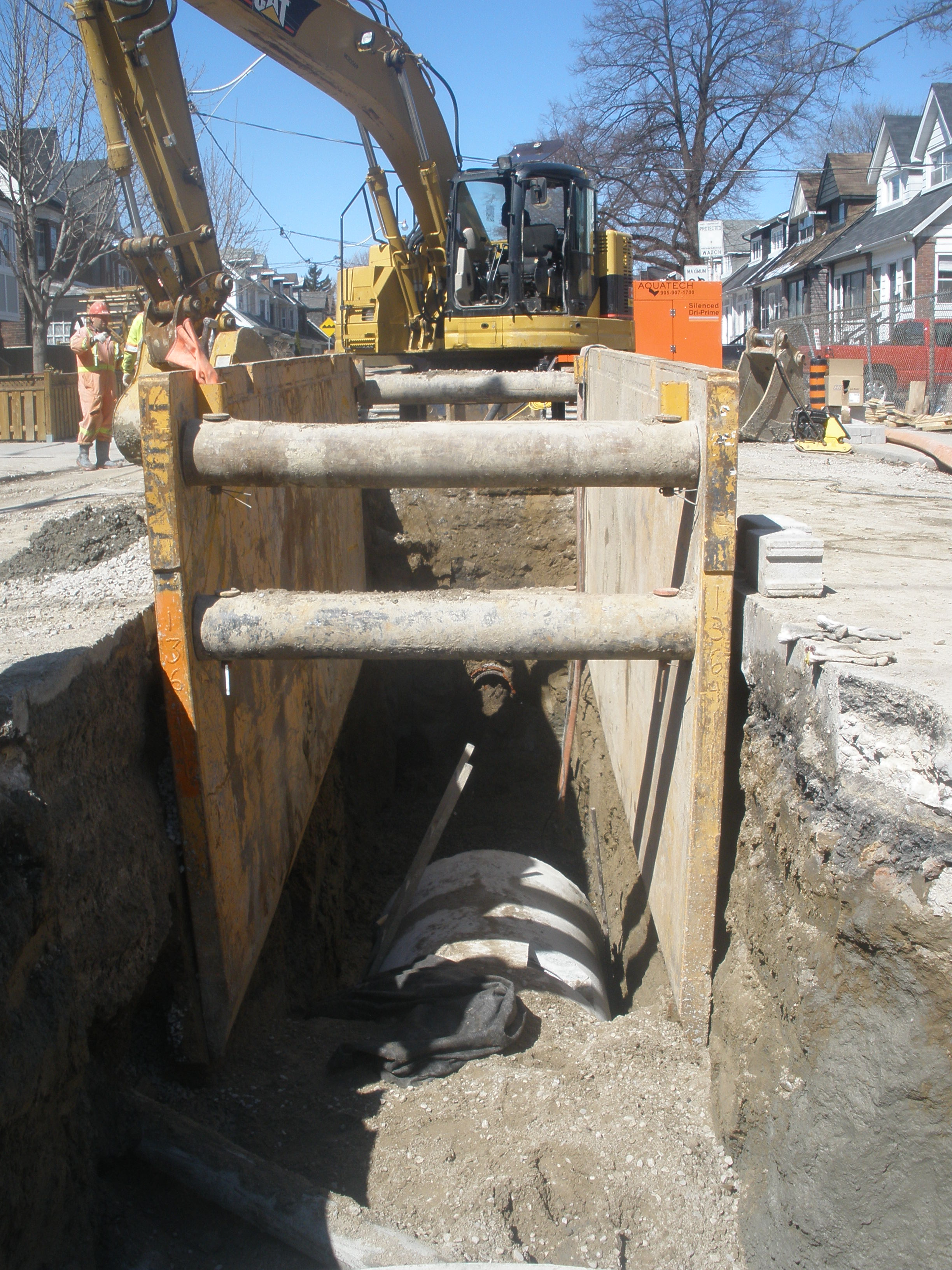 900 mm dia Sewer Installation, Toronto, Kent Road